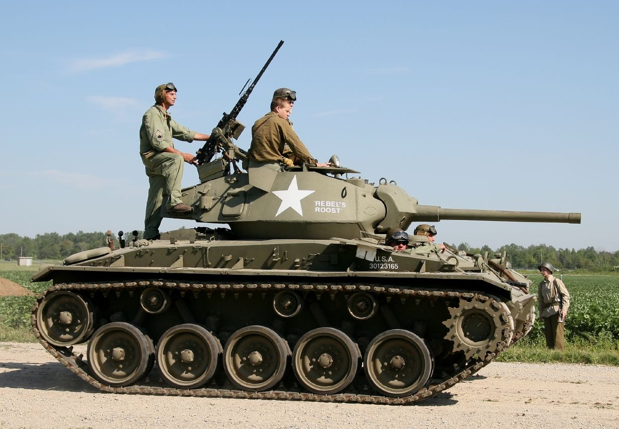 M24 Chaffee at the Thunder Over Michigan 2006 License on Flickr (2011-02-10): CC-BY-2.0 Flickr tags: Armor, Tanks, Reenacting, WWII, 30D, Canon, EOS, M24